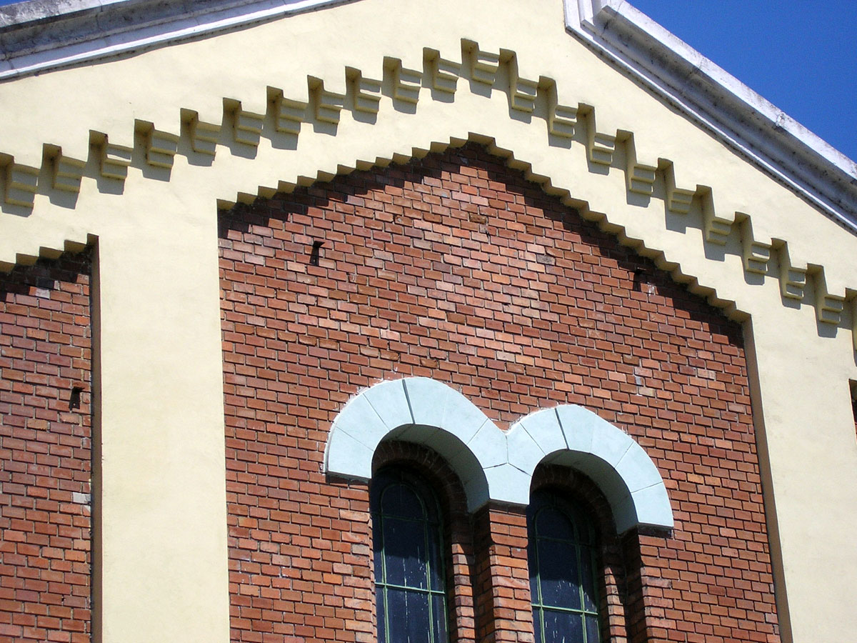 The building of old waterworks in Budapest, Hungary